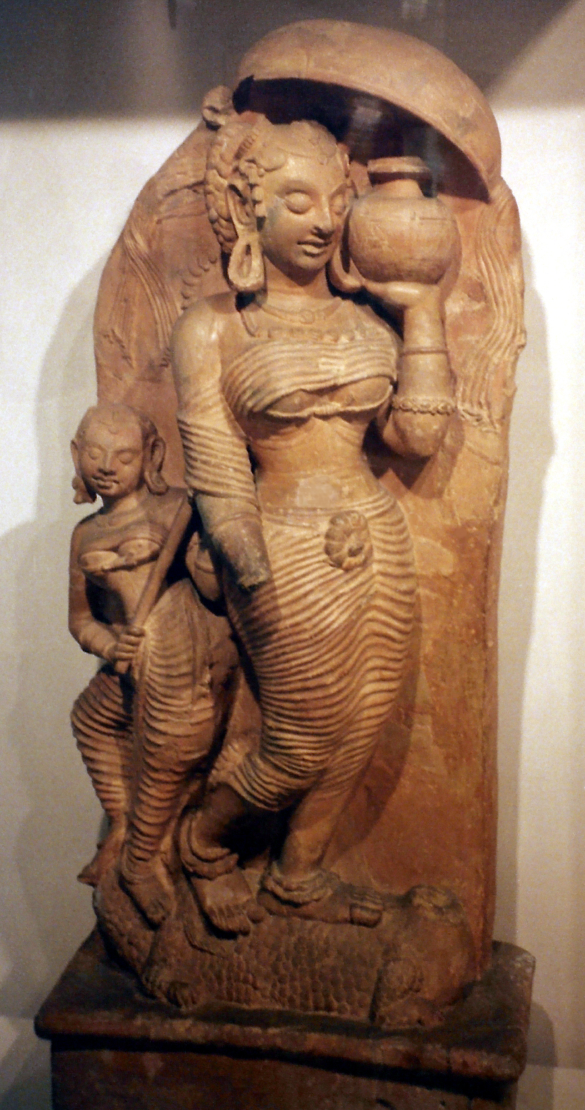 Ganga personifies the Ganges river. Her upraised hands carry a pot which contains the life-giving waters, and she is flanked by an attendant holding a parasol. The goddess stands on a makara. This statue is one of a calebrated pair (Ganga and Yamuna) in the museum.